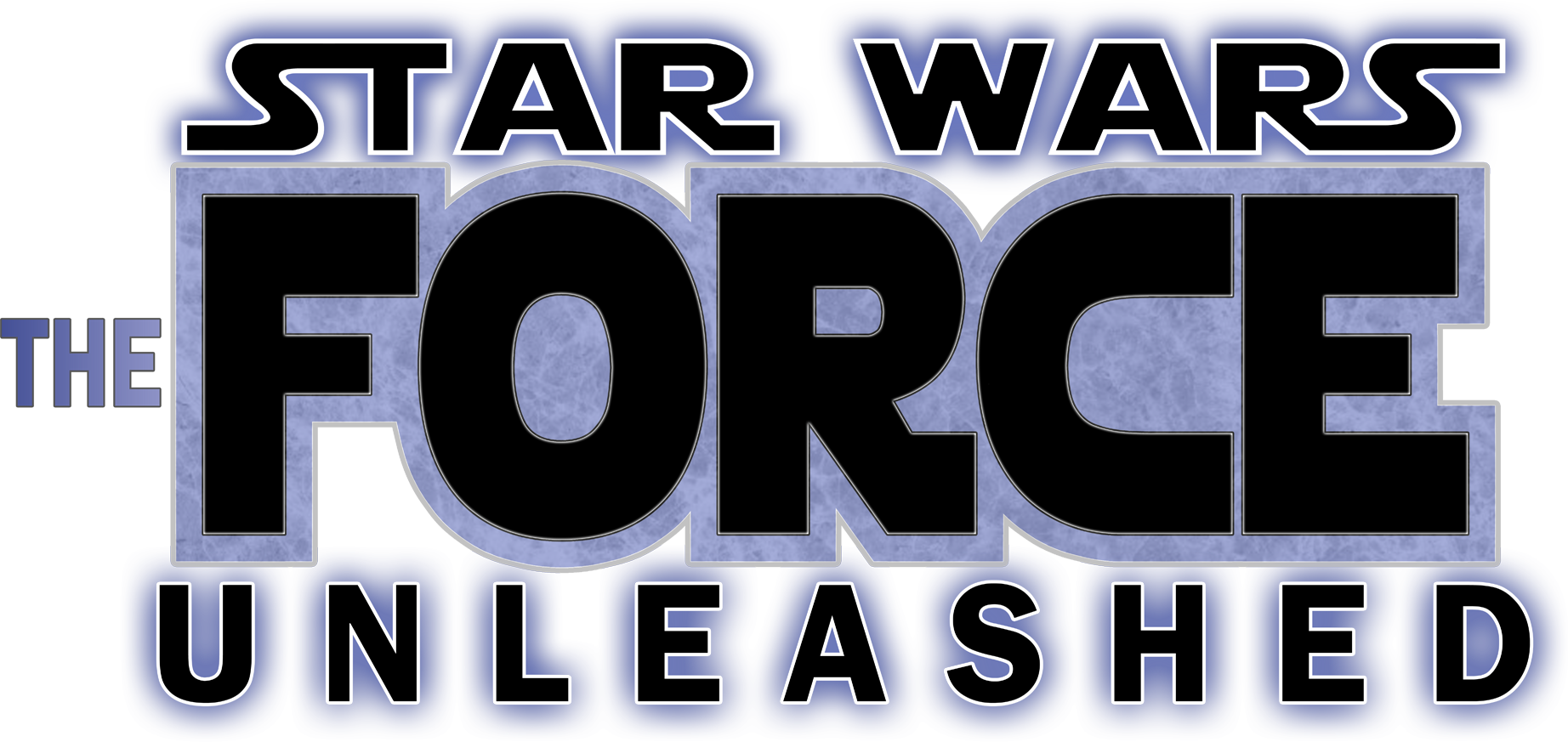 Logo of SWTFU mediaproject